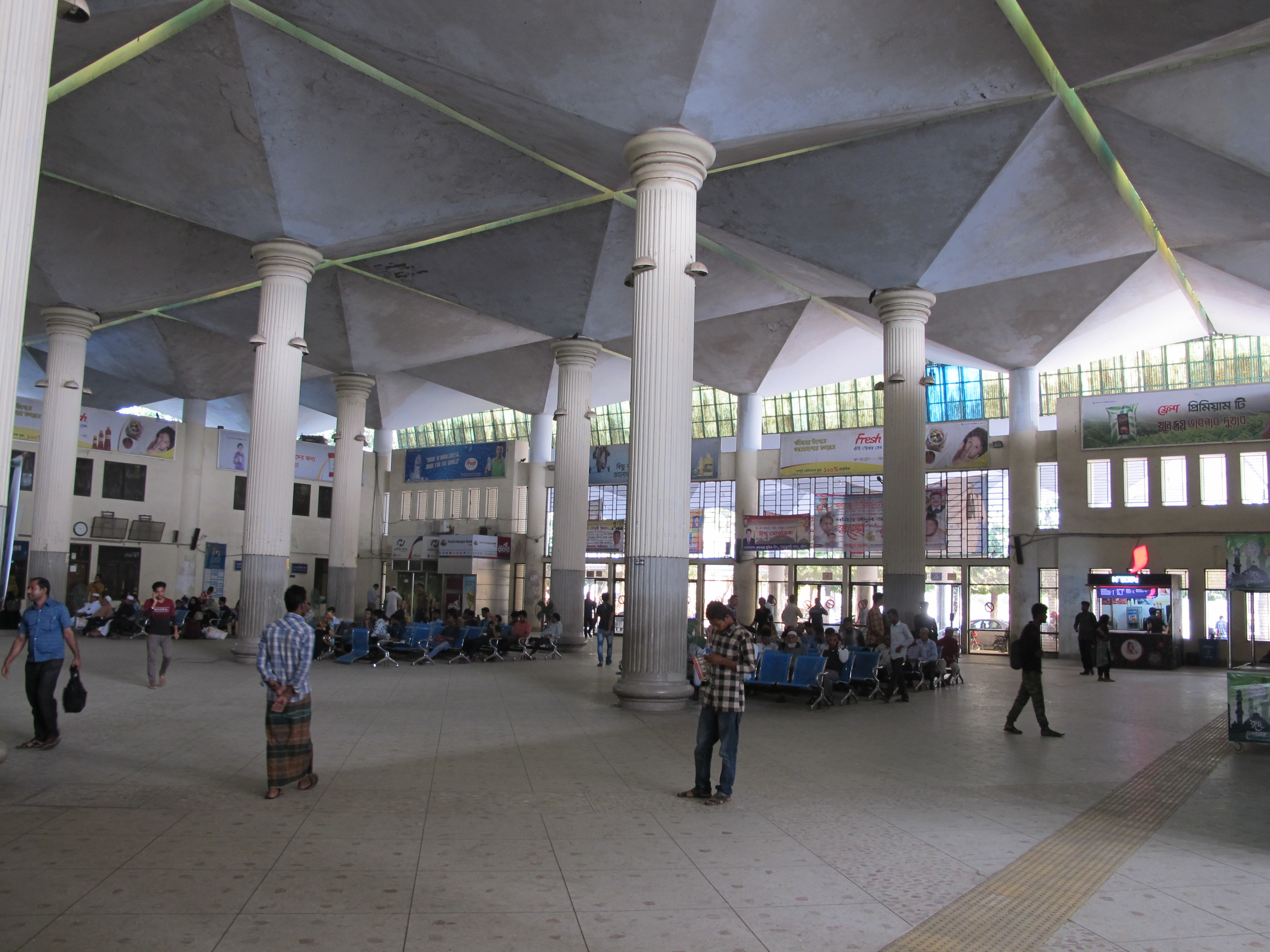 Inside the main Railway station in Chittagong, main building